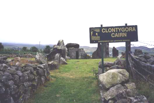 Clontygora court tomb